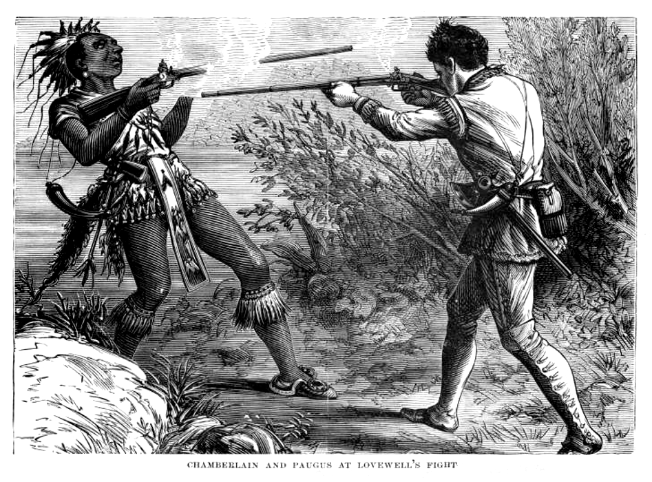 Chamberlaine and Paugus At Lovewells Fight Engraving from John Gilmary Shea A Child's History of the United States Hess and McDavitt 1872.jpg